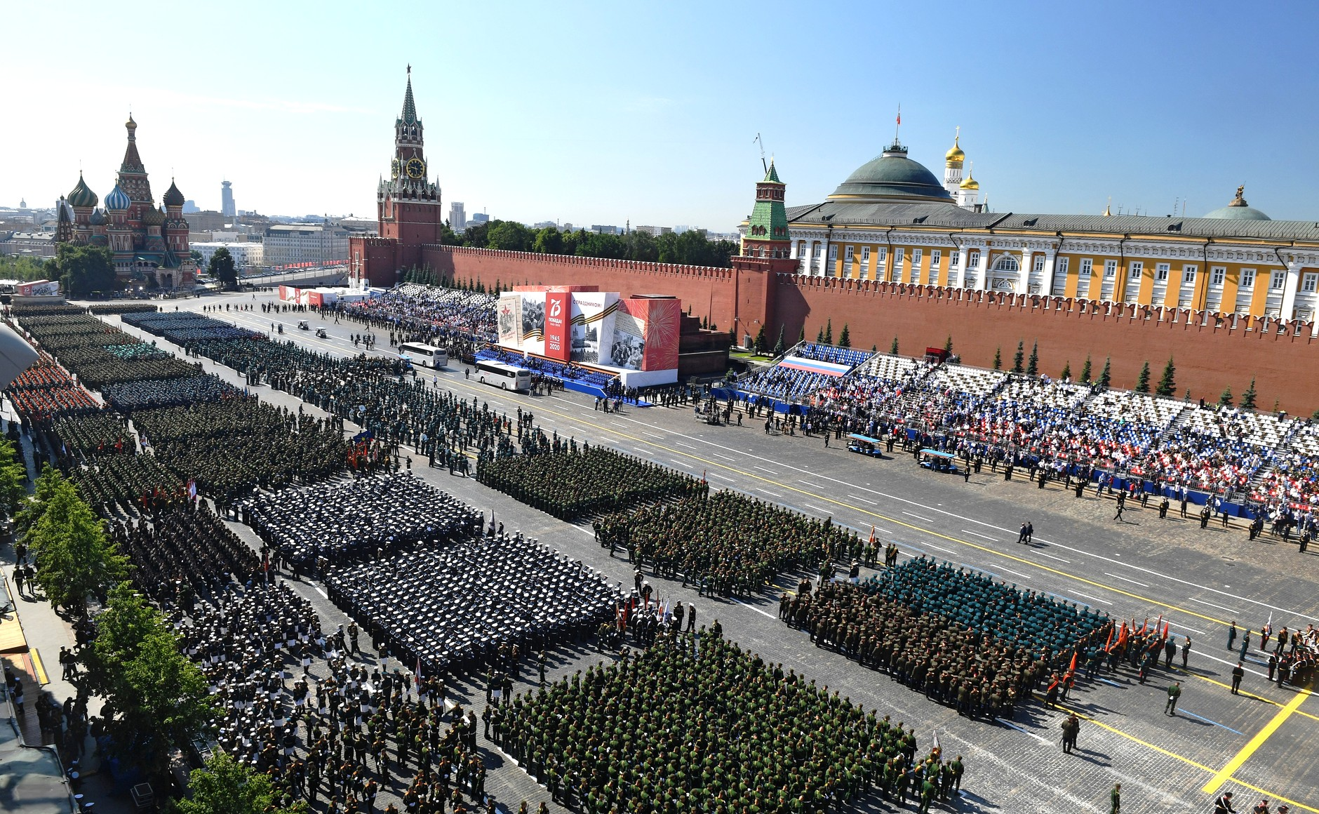 2020 Moscow Victory Day Parade Аҧсшәа: Военный парад на Красной площади в Москве 24 июня 2020 года